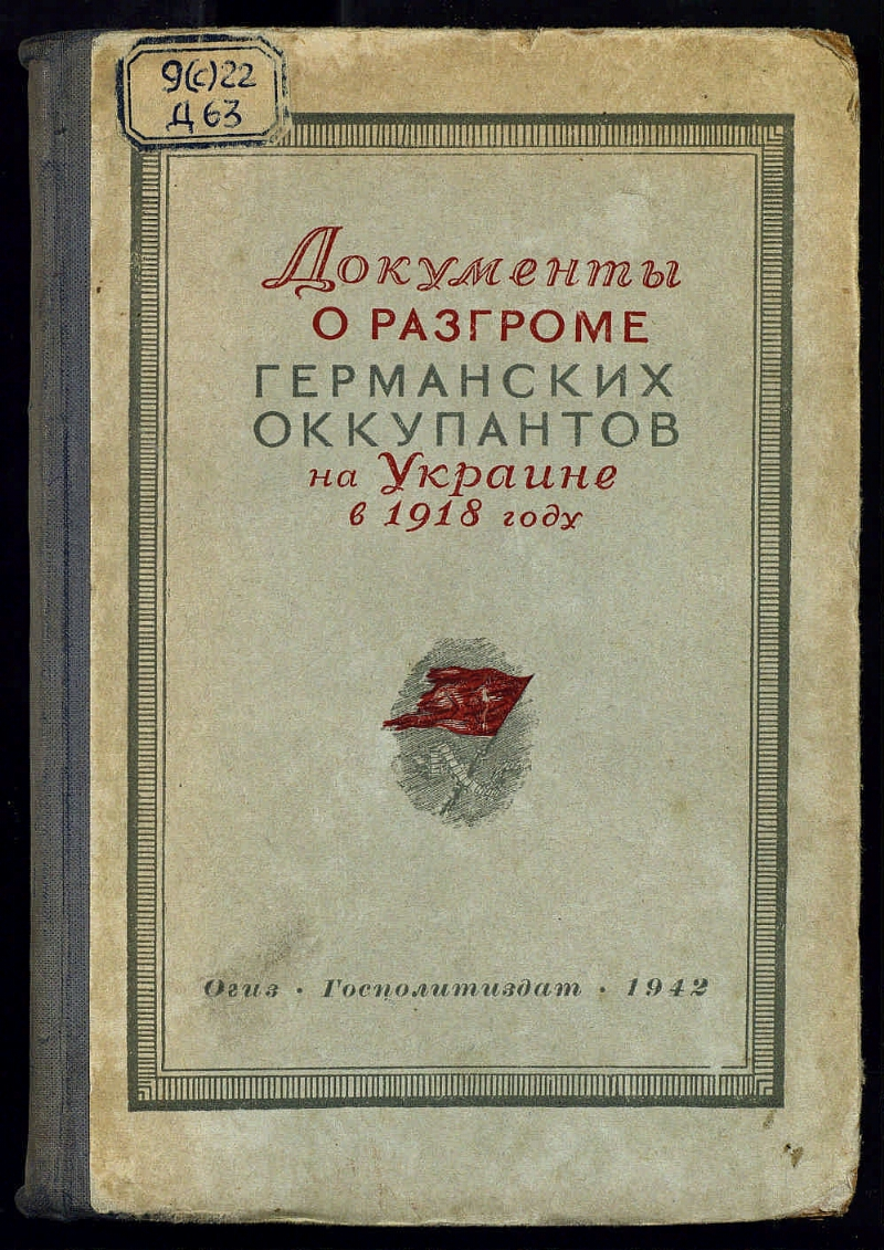 Documents on the defeat of the German invaders in Ukraine in 1918 cover. Too simple for copyright protection.